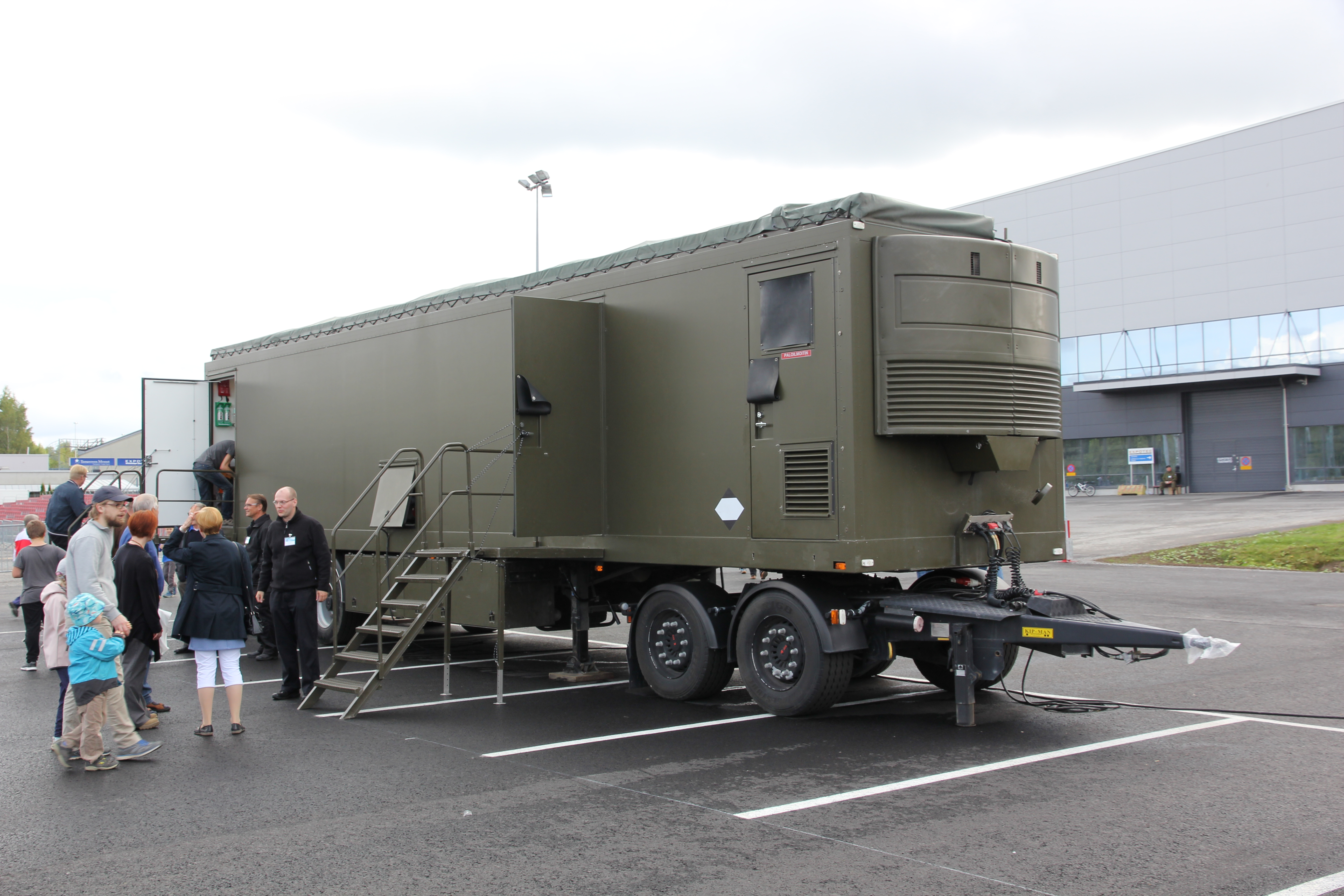 Finnish military CBRN field laboratory on display at Comprehensive security exhibition 2015 in Tampere. In full operation the laboratory also includes inflatable tents and additional equipment containers.